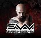 Super Marco May